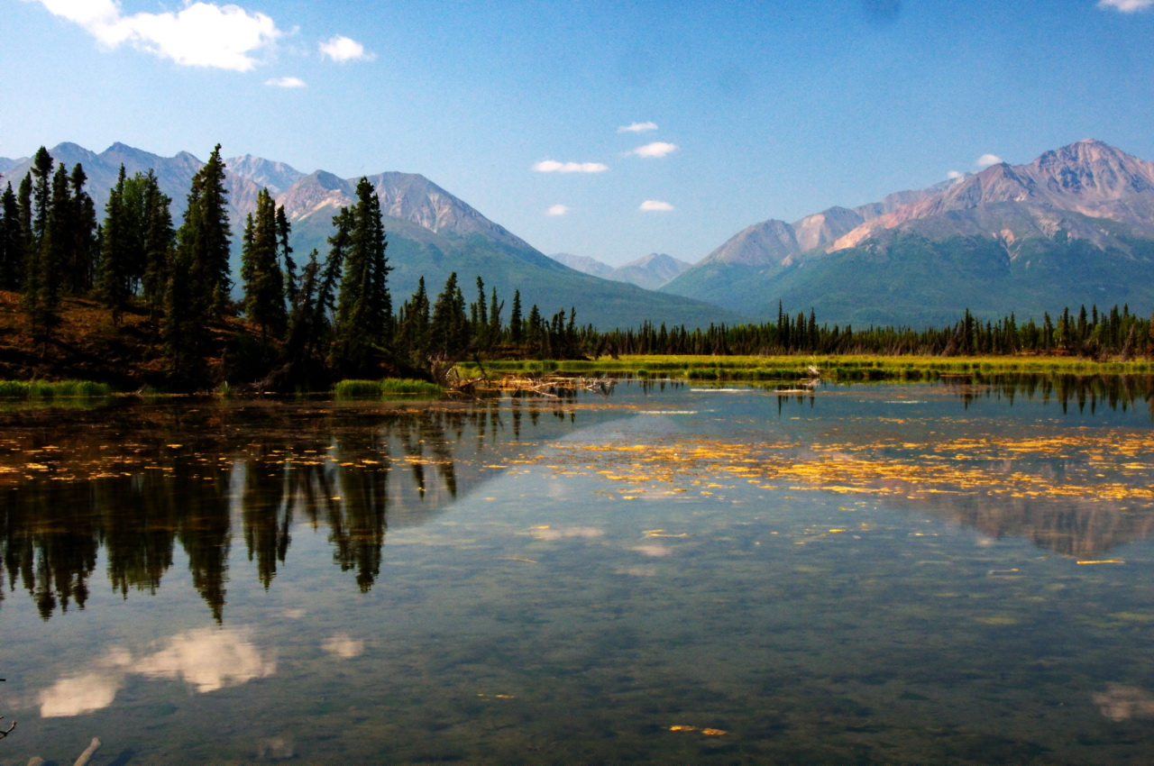 Mentasta Mountains on the Tok Cutoff 4